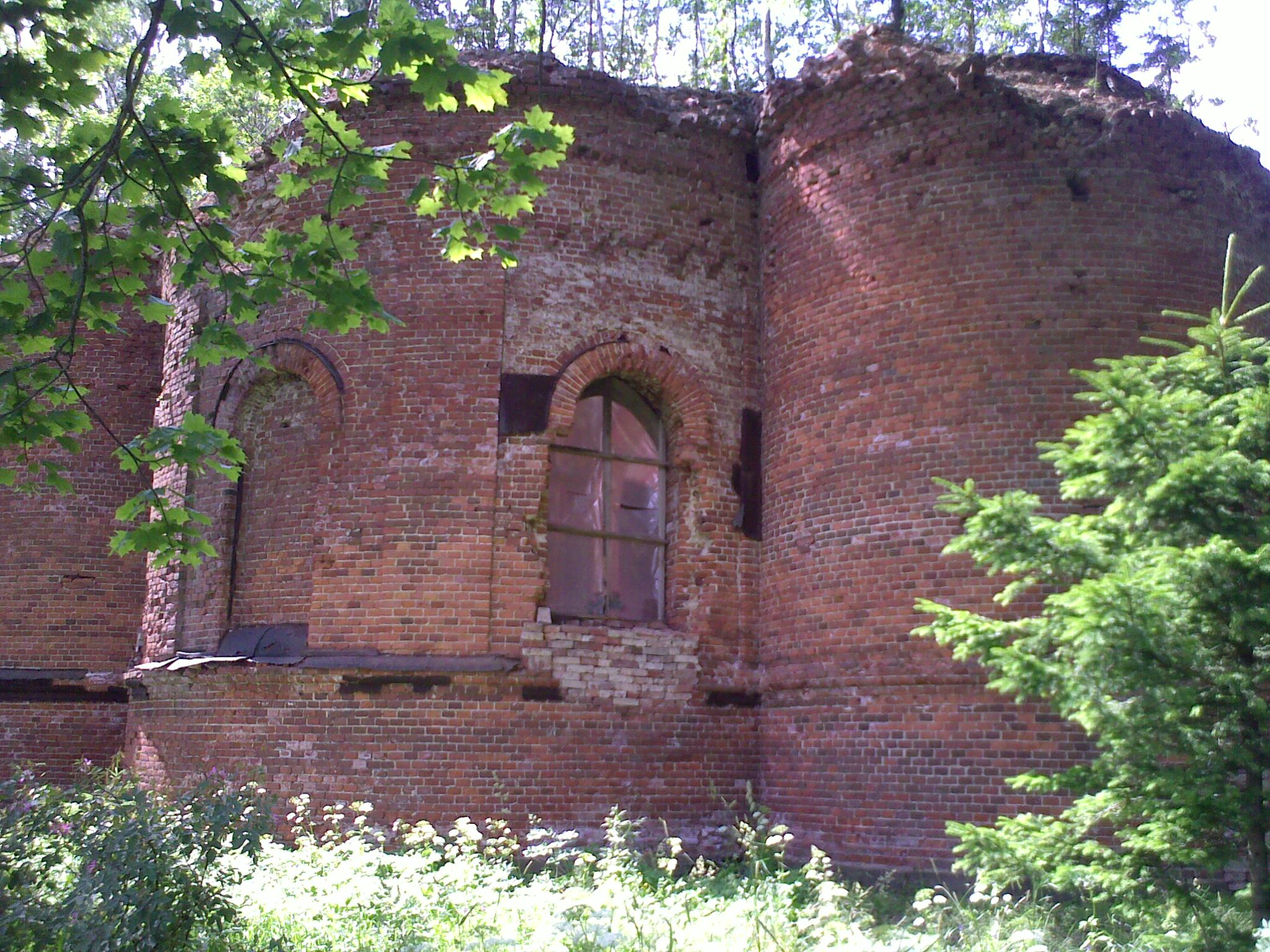 Ruins of the church of St. Nicholas in Soykino, Leningrad Oblast of Russia. Built in 1883.